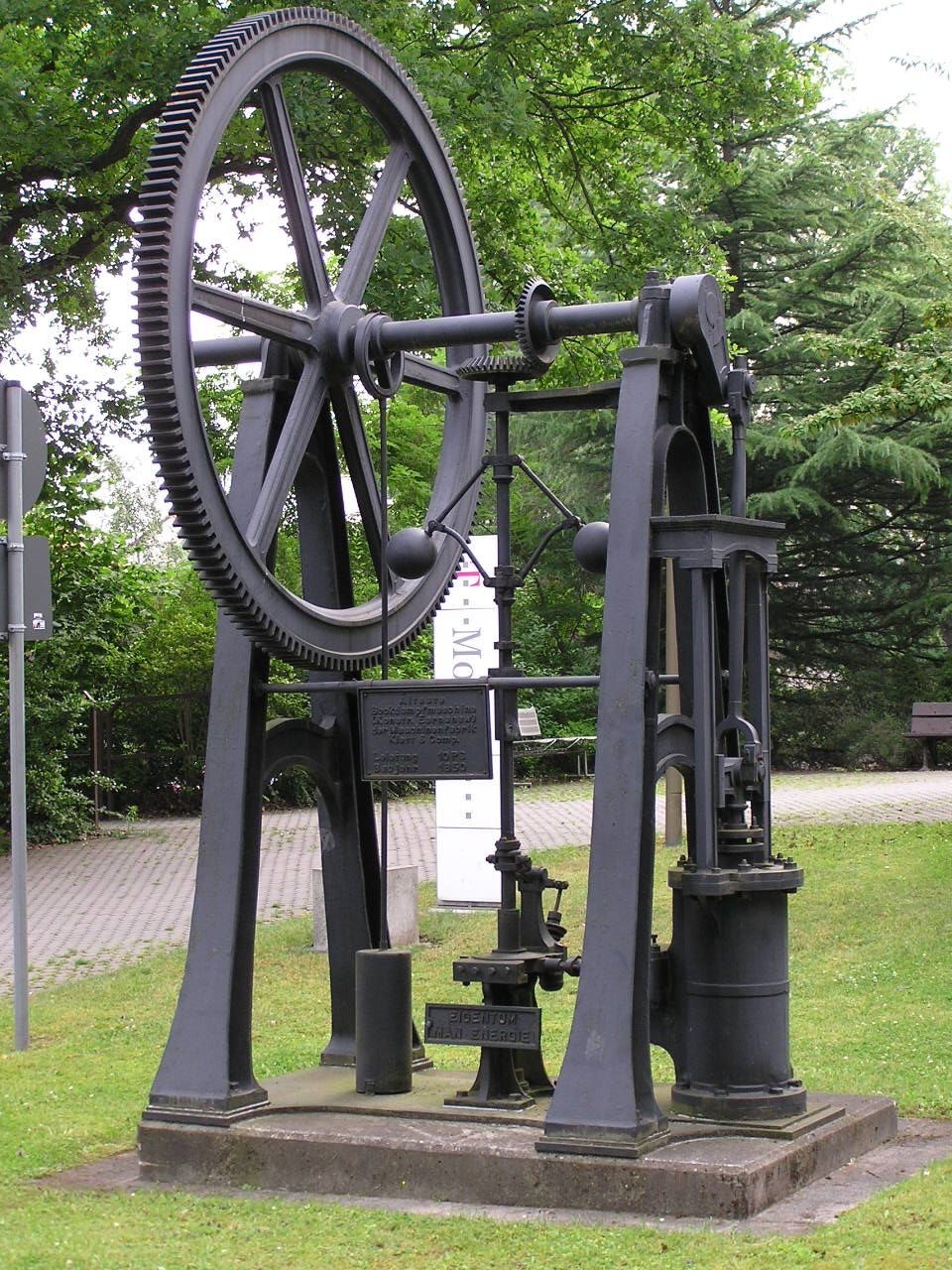 The oldest steam engine in the factory "Klett & Comp." (1850)